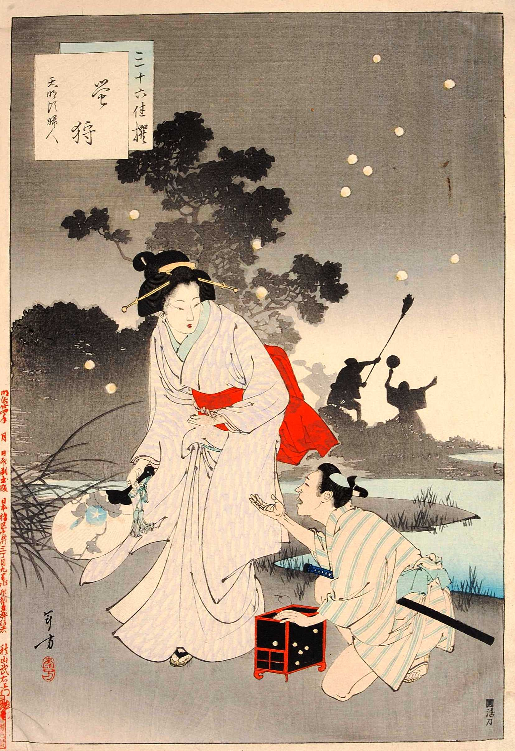 Hotarugari, Firefly Catching, by Mizuno Toshikata. Ukiyoe, Japanese woodblock print, 1891. Catching Fireflies: Women of the Tenmei Era[1781-89] (Hotaru-gari, Tenmei koro fujin), from the series Thirty-six Elegant Selections (Sanjûroku kasen)